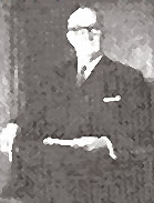 Image found at